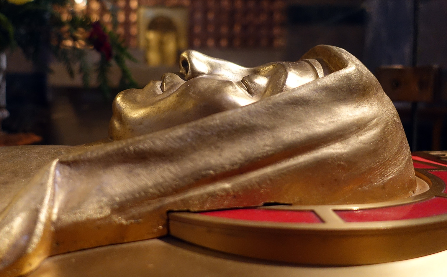 Jane Frances de Chantal in Basilique de la Visitation in Annecy.